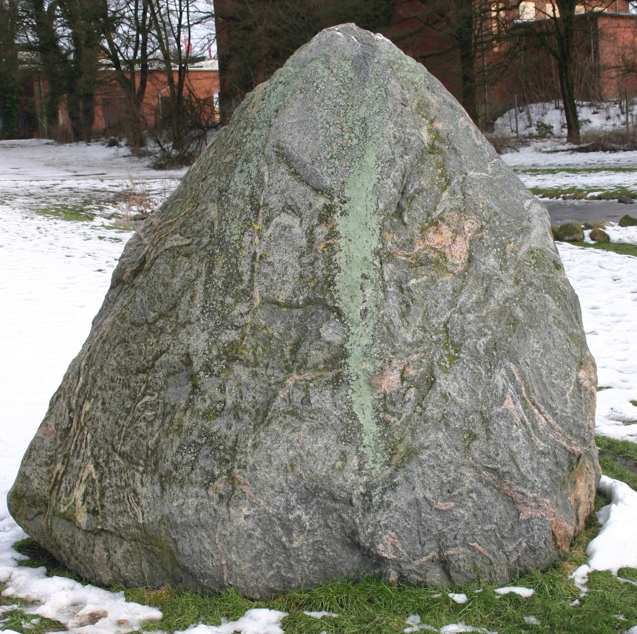 A large boulder deposited by the glaciers during the latest iceage.